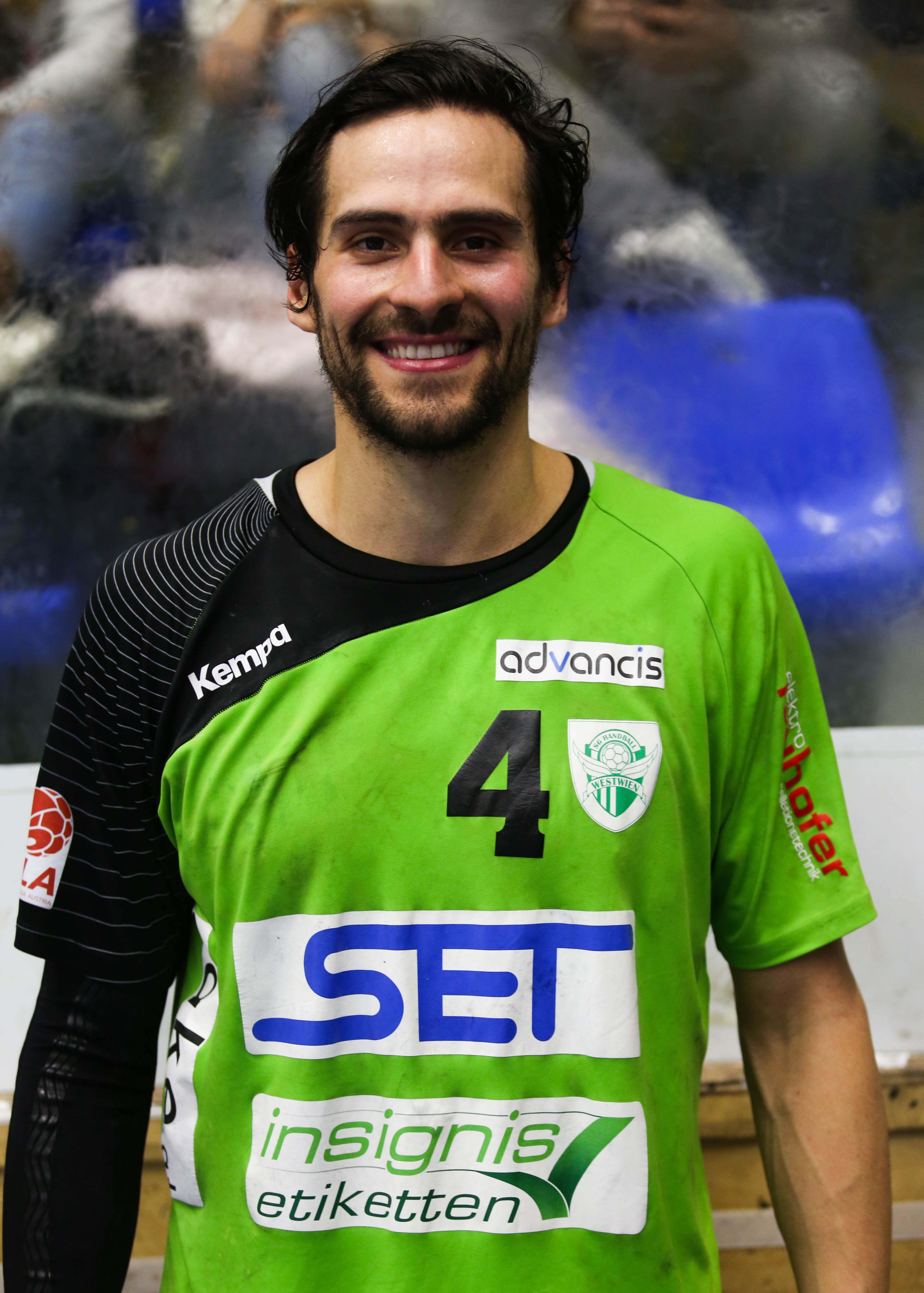 Erwin Feuchtmann Perez after a game of the "Handball Liga Austria" on 9th December 2016.